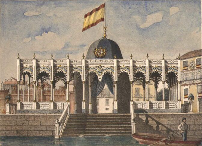 Kiosko embarcadero visto desde el mar, 1862 (A, Ramirez y F. Mitjana)